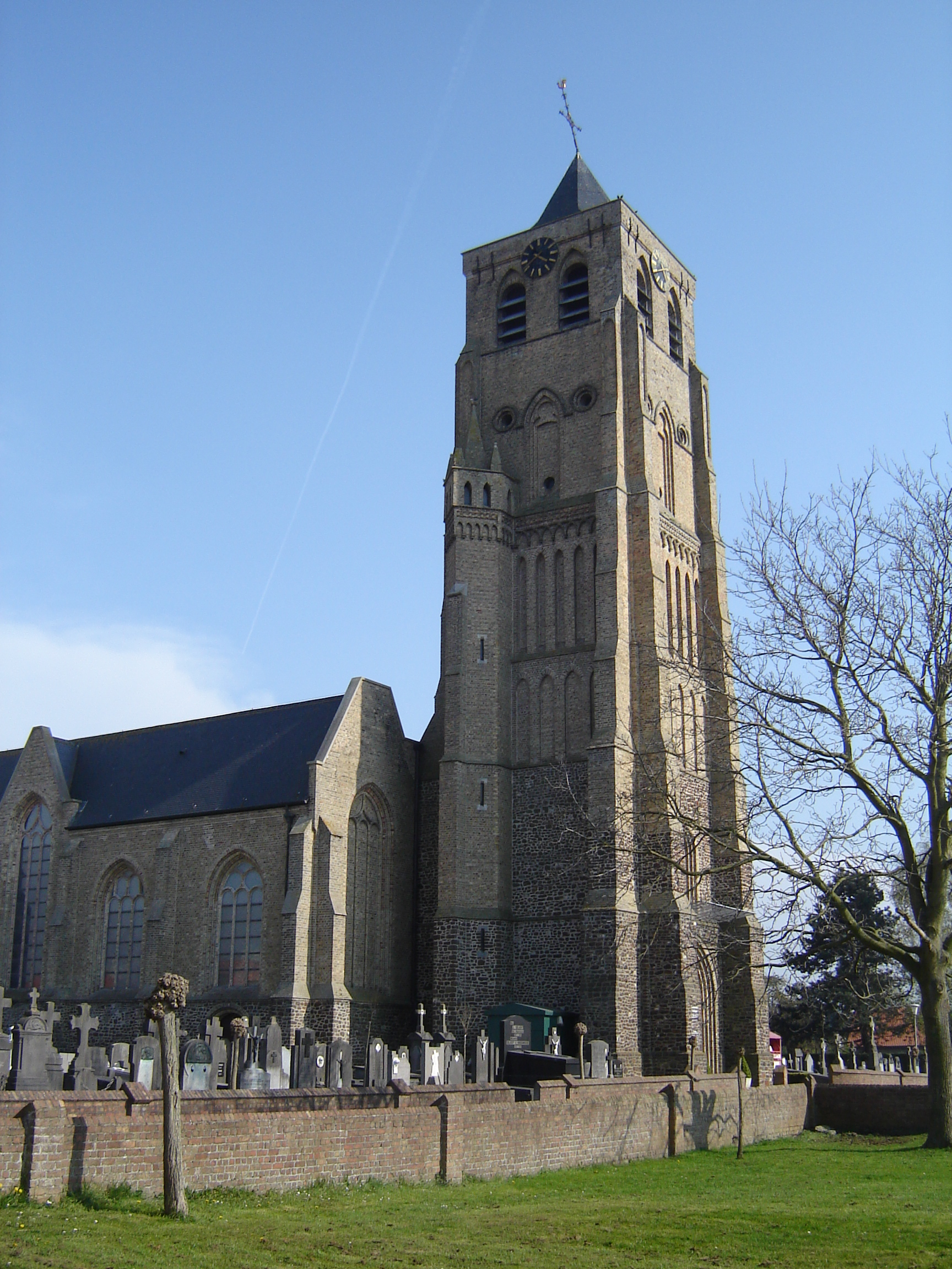 Church of Saint Andrew in Woumen, Diksmuide, West-Flanders, Belgium